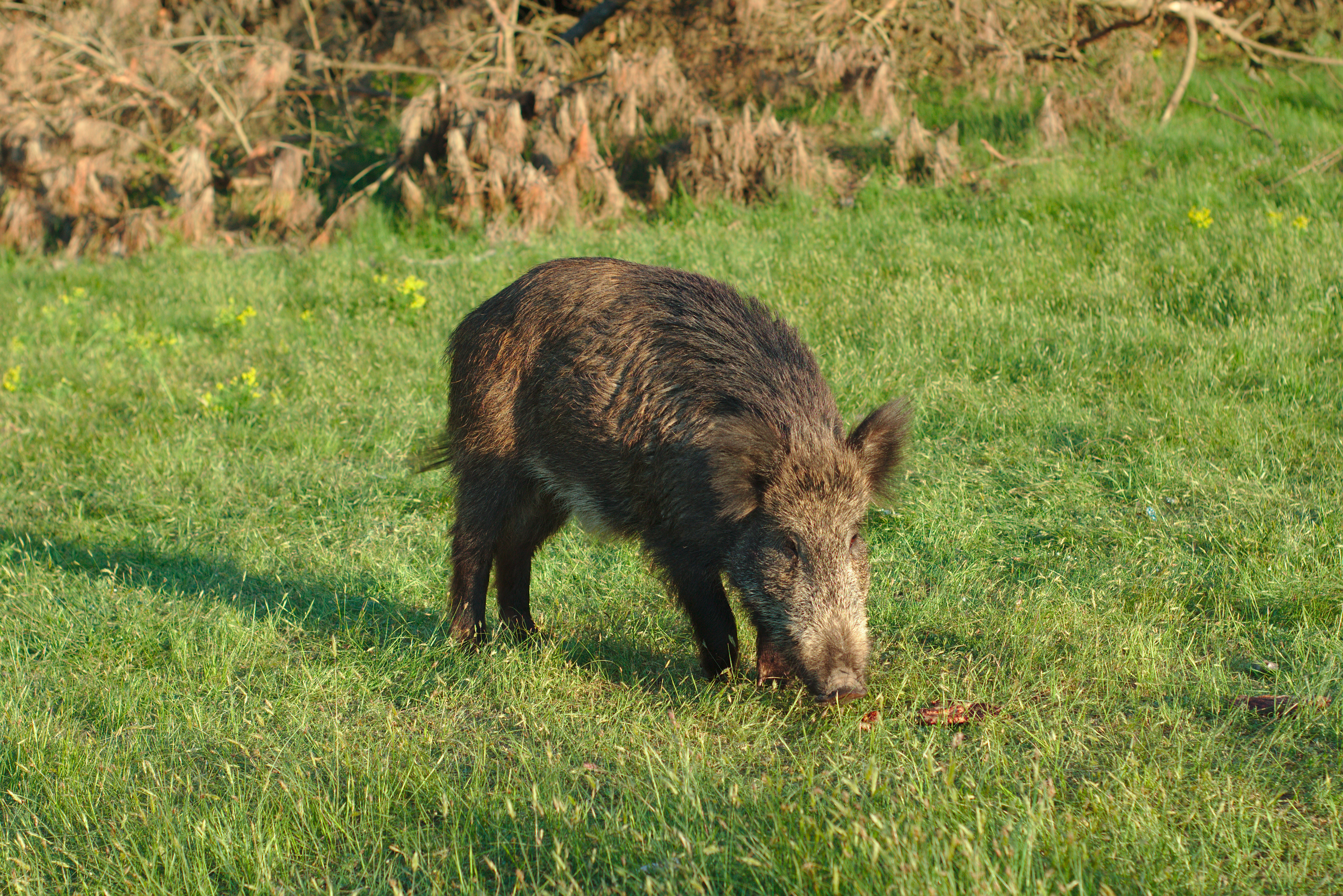 A wild boar in San Rossore (Pisa, Italy)